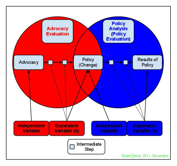 This image depicts the differences between Policy Advocacy Evaluation and Policy Evaluation (analysis). It was created by Grant Ennis in December 2011.